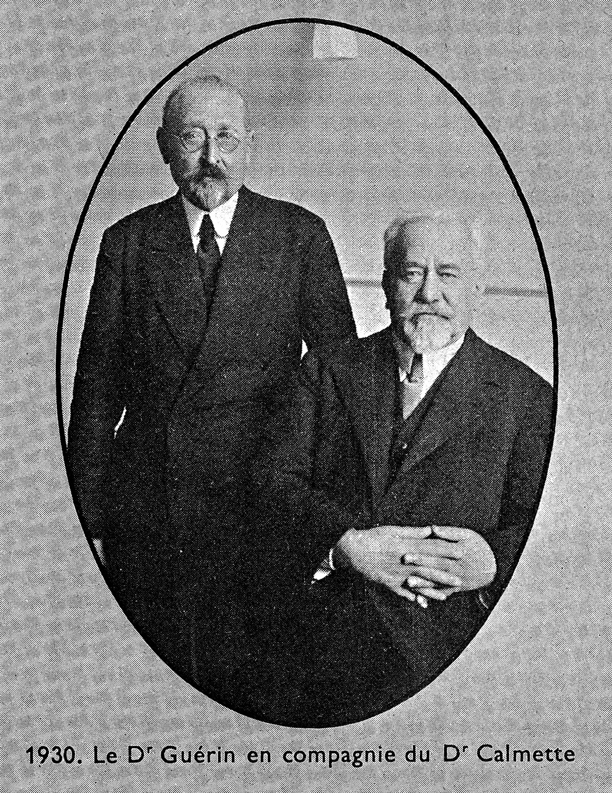 Portrait of Jean Marie Camille Guerin with Leon Charles Albert Calmette General Collections Keywords: Leon Charles Albert Calmette; Jean Marie Camille Guerin